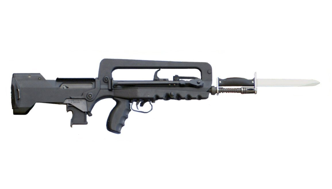 FAMAS F1 rifle with bayonet.